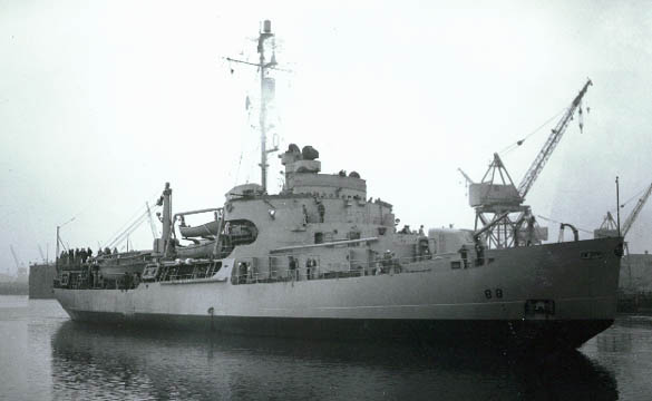 USS Burton Island (AG-88), later USCGC Burton Island (WAGB-283).